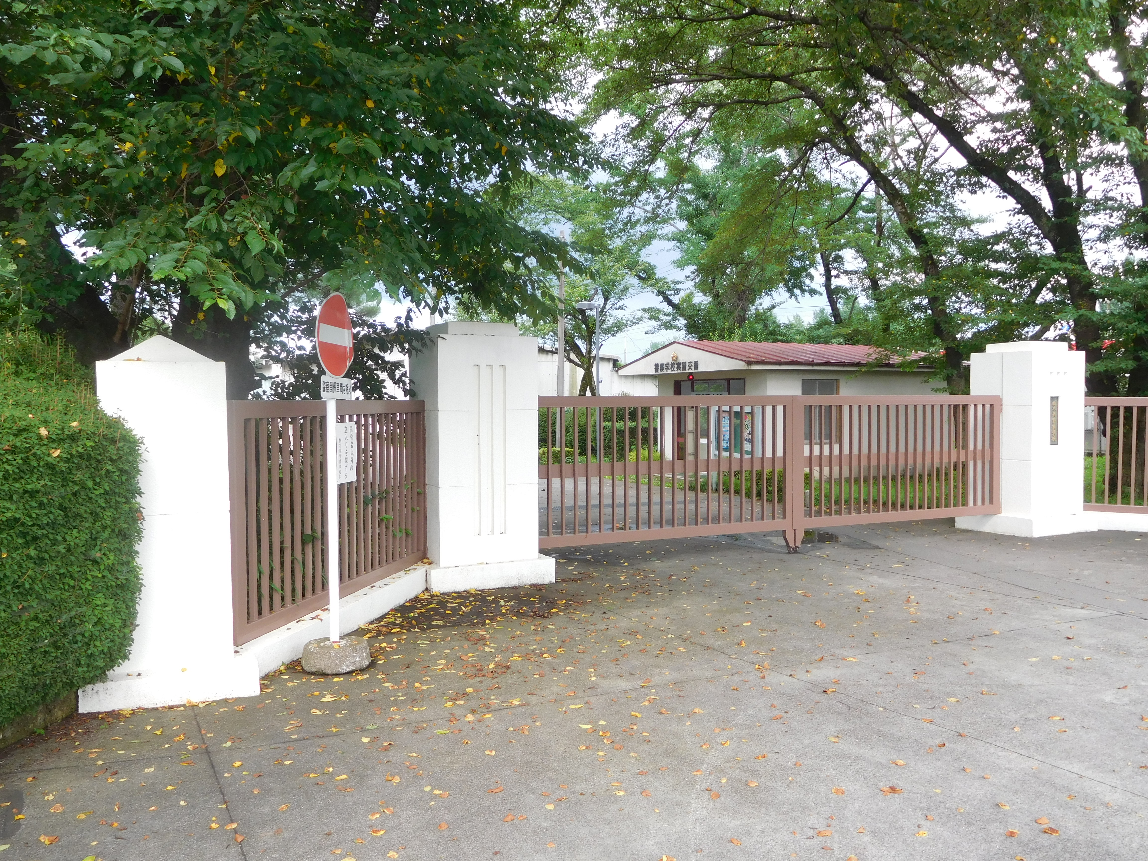 This is Tochigi prefecture police academy in Utsunomiya, Tochigi, Japan.